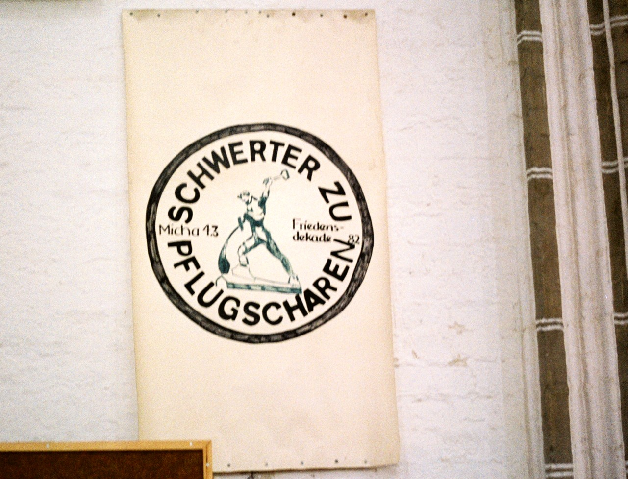 Schwerter zu Pflugscharen banner in Schwerin cathedral, November 1, 1989